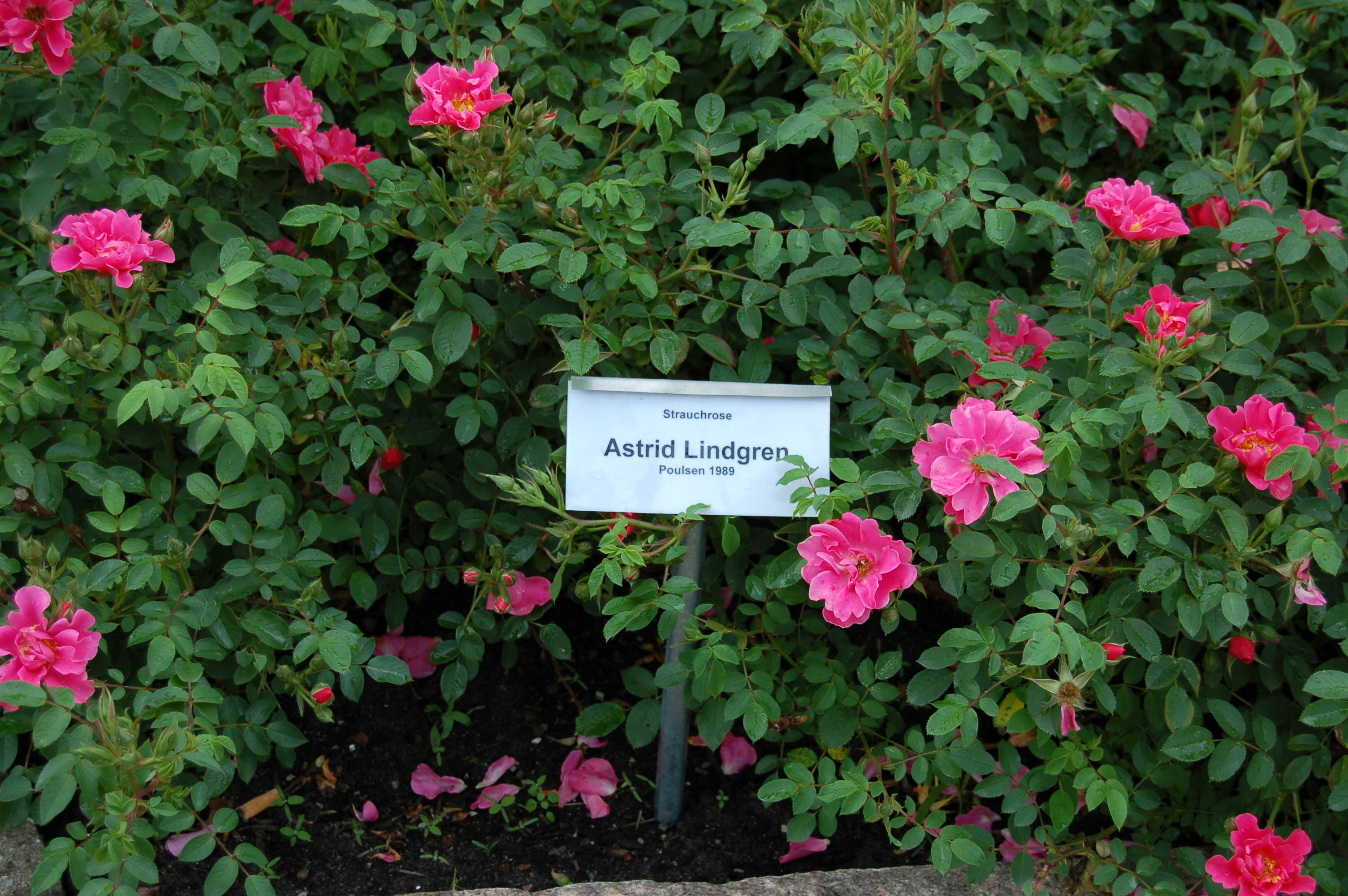 Unidentified roses with sign 'Astrid Lindgren'